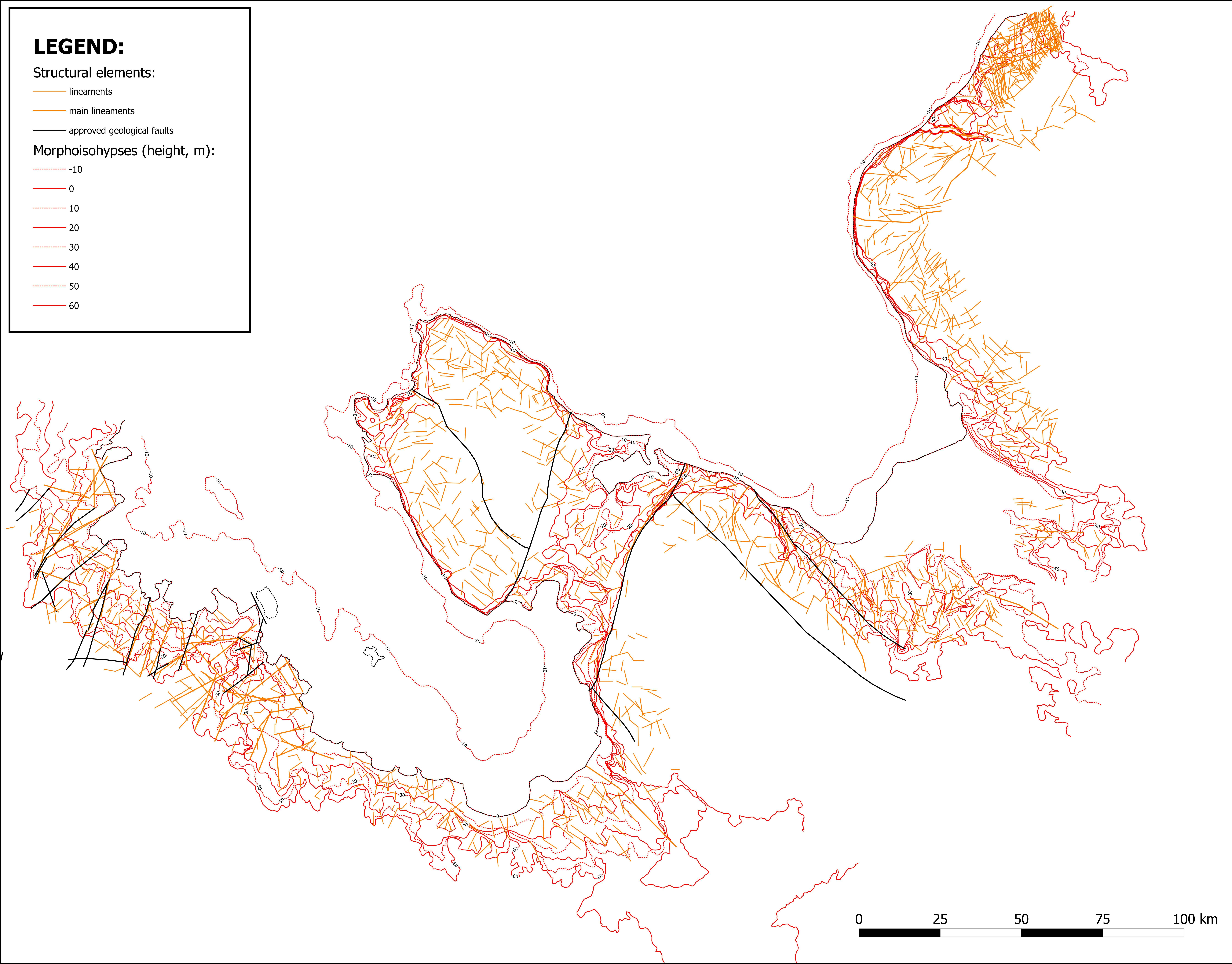 Morphostructural map of the south-eastern White Sea coast. Morphoisohypses (lines of equivalent heights of the tectonic relief) and lineaments (estimated geological faults traced in relief) are marked.